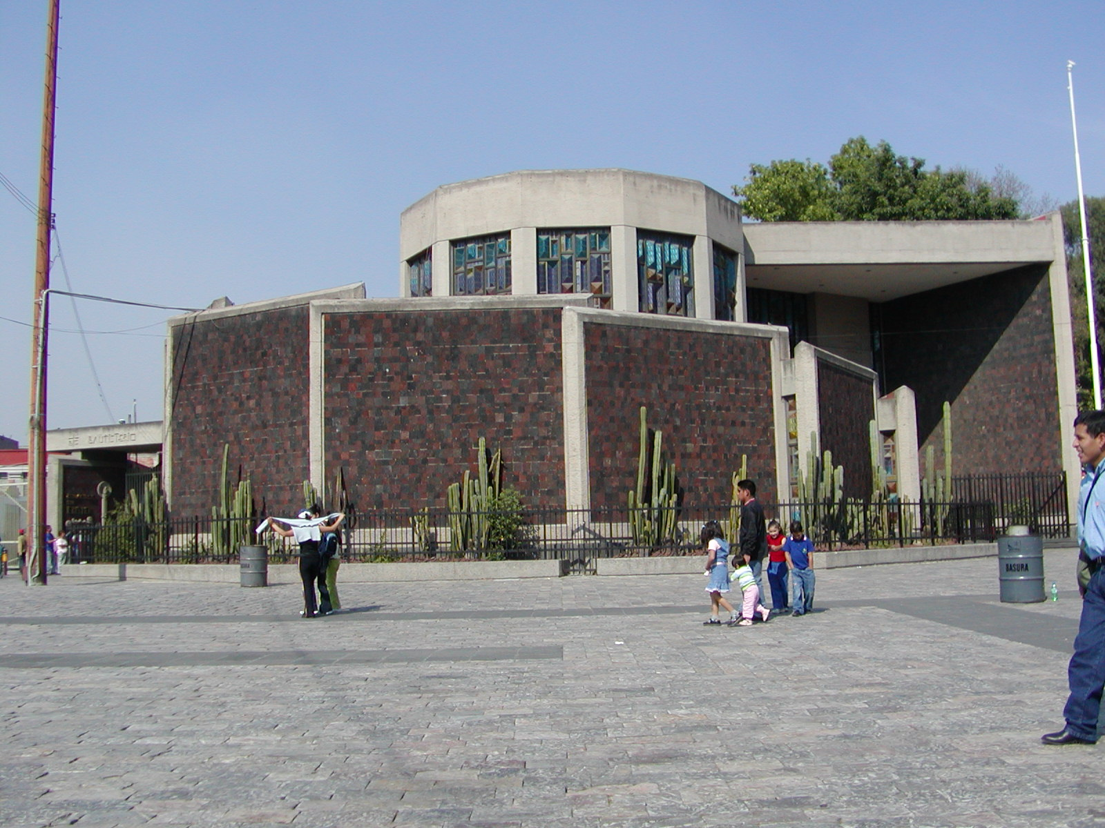 Babtistery in the Sanctuary of our Lady of Guadalupe.